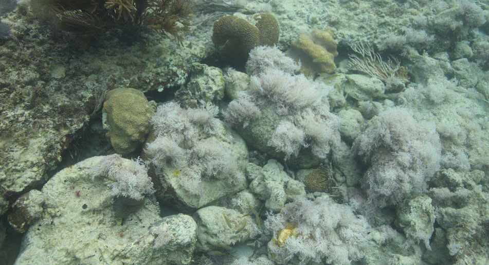 Overturned corals with macroalgal overgrowth were a common sight in Punta Tamarindo Chico coral reefs, after 2017 hurricanes Irma and Maria